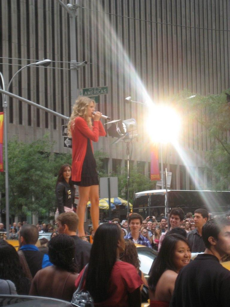 Taylor Swift performing at the 2009 MTV Video Music Awards.